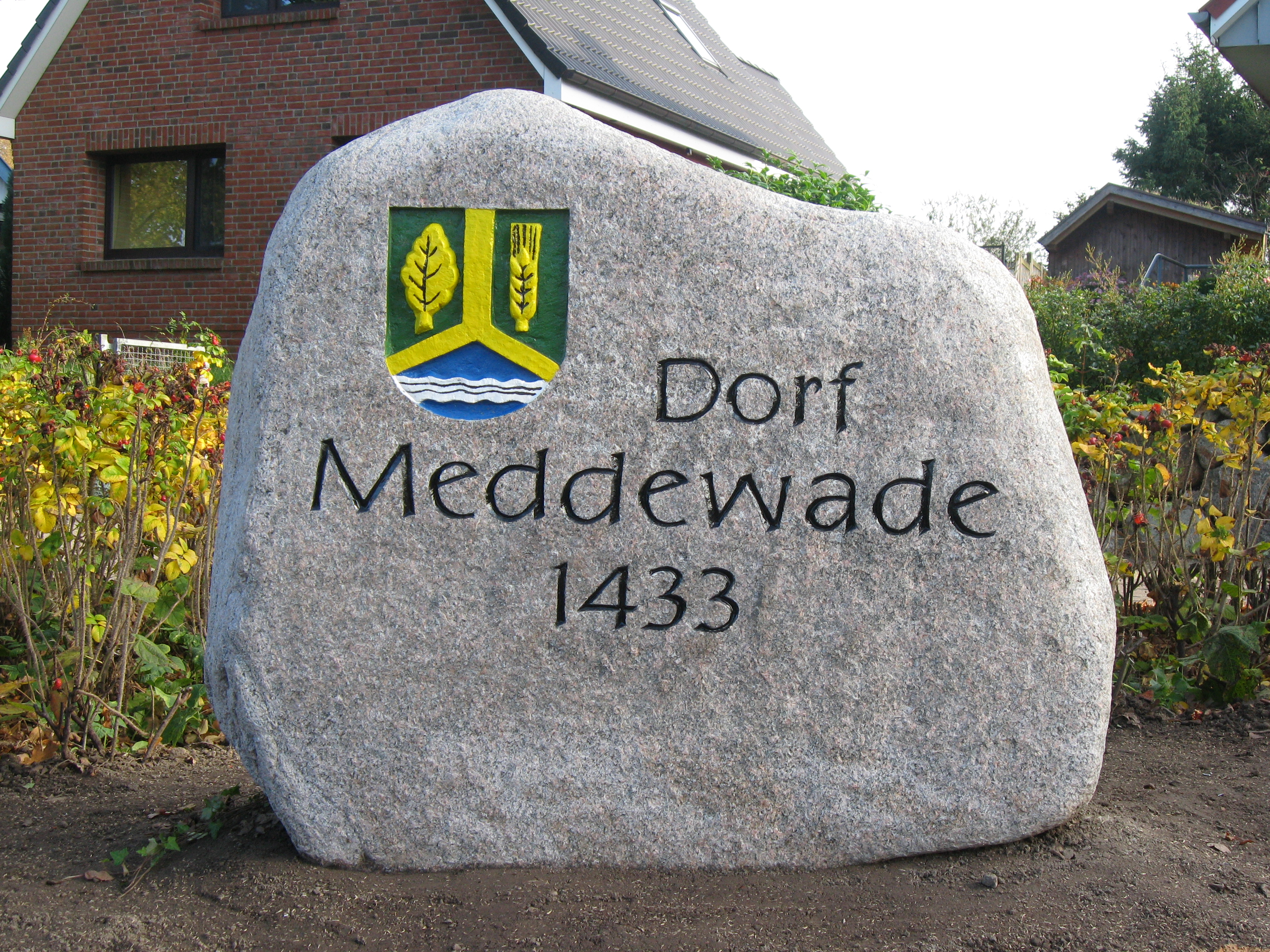 Memorial stone in the german village of Meddewade.